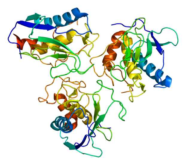 Structure of the MMP10 protein. Based on PyMOL rendering of PDB 1q3a.